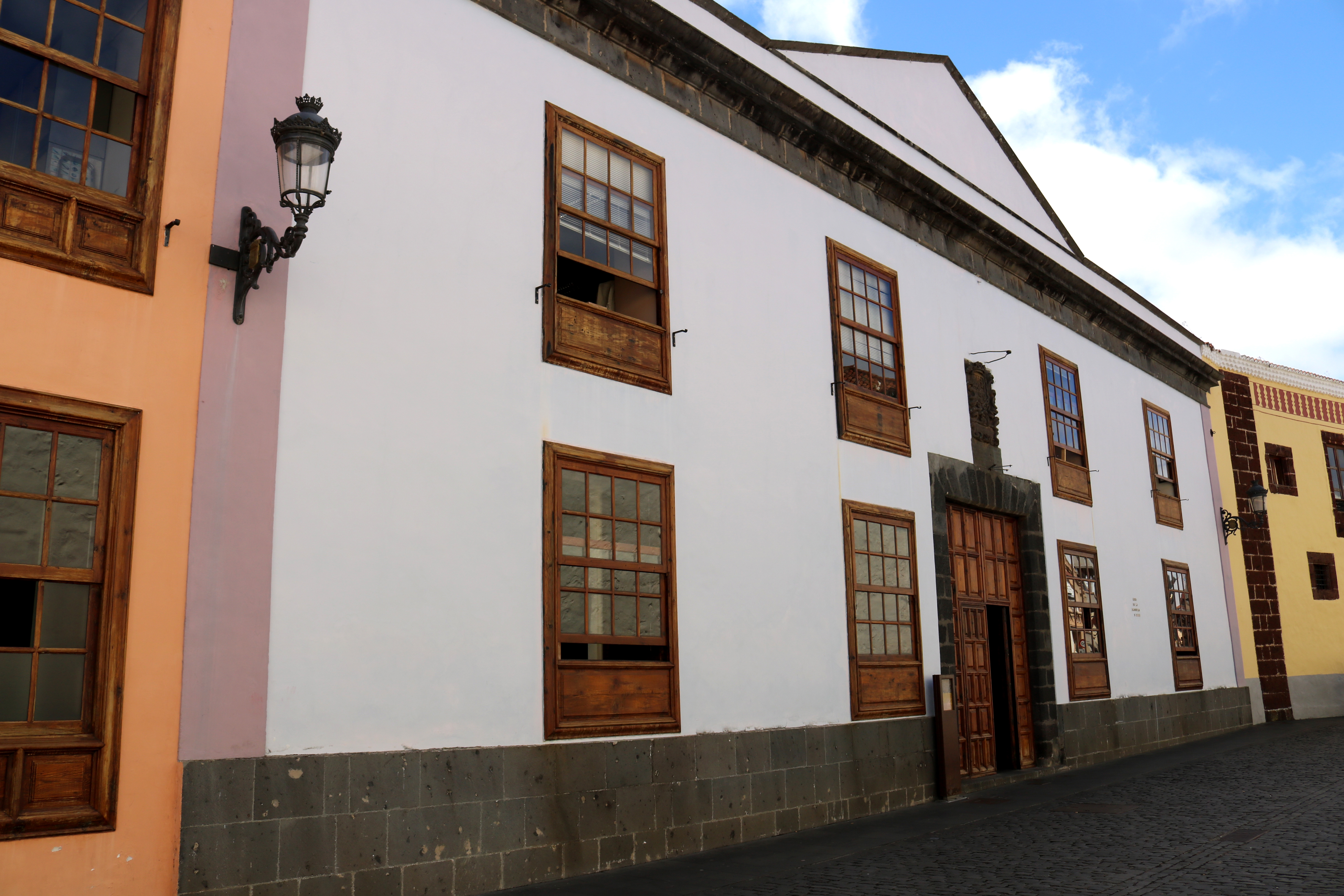 Casa de la Alhóndiga, in San Cristóbal de La Laguna, Tenerife